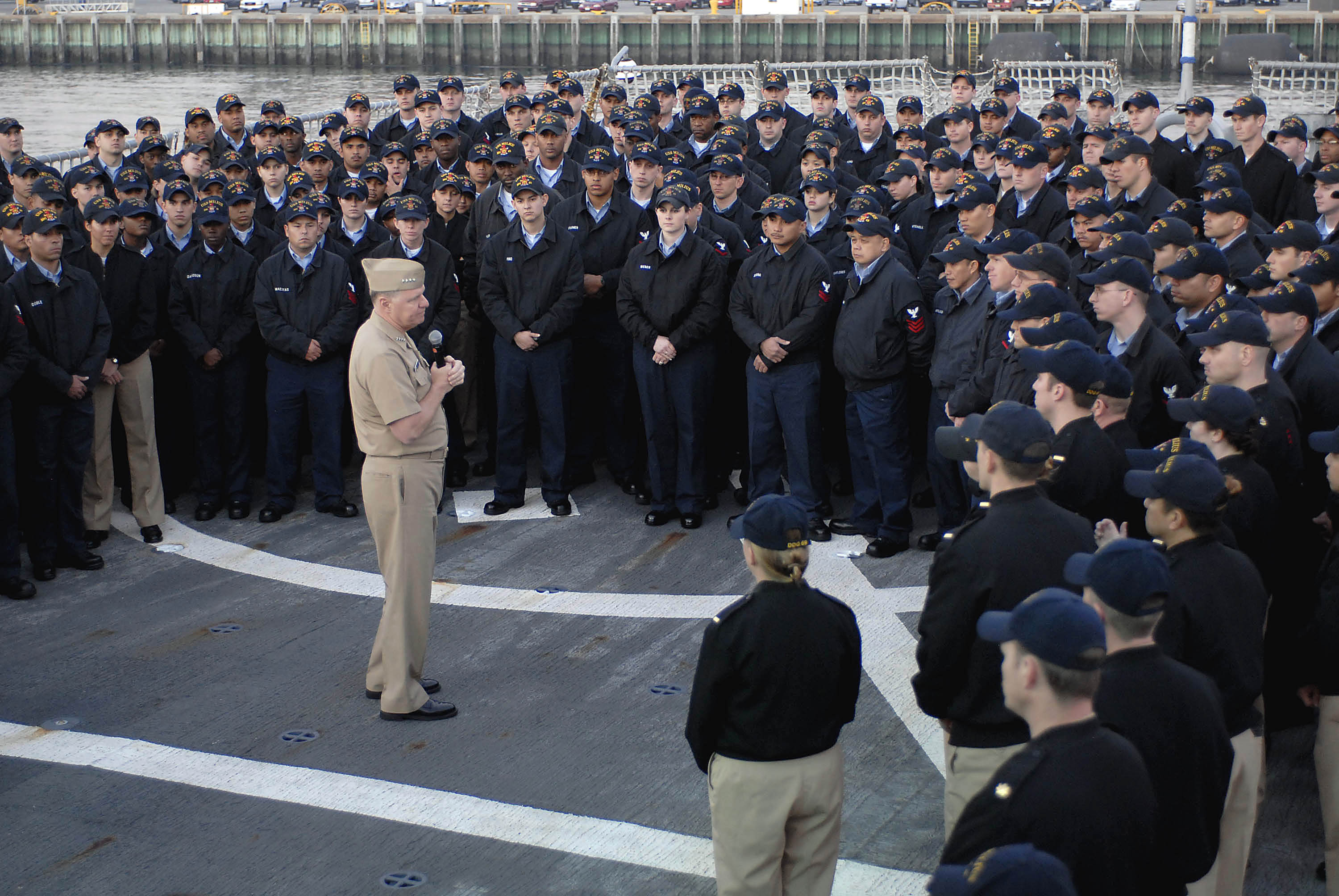 SAN DIEGO (Jan. 10, 2008) Adm. Gary Roughead, Chief of Naval Operations (CNO), talks with crewmembers and answers questions during an all-hands call aboard the guided-missile destroyer USS Milius (DDG 69). Roughead spoke about individual augmentee assignments and thanked the crew for their hard work. Roughead was in the region touring major public and private shipbuilding sites to deepen his understanding of shipbuilding, develop the Navy's relationship with industry and hear perspectives from various shipbuilders. U.S. Navy photo by Mass Communication Specialist 1st Class Tiffini M. Jones (Released)